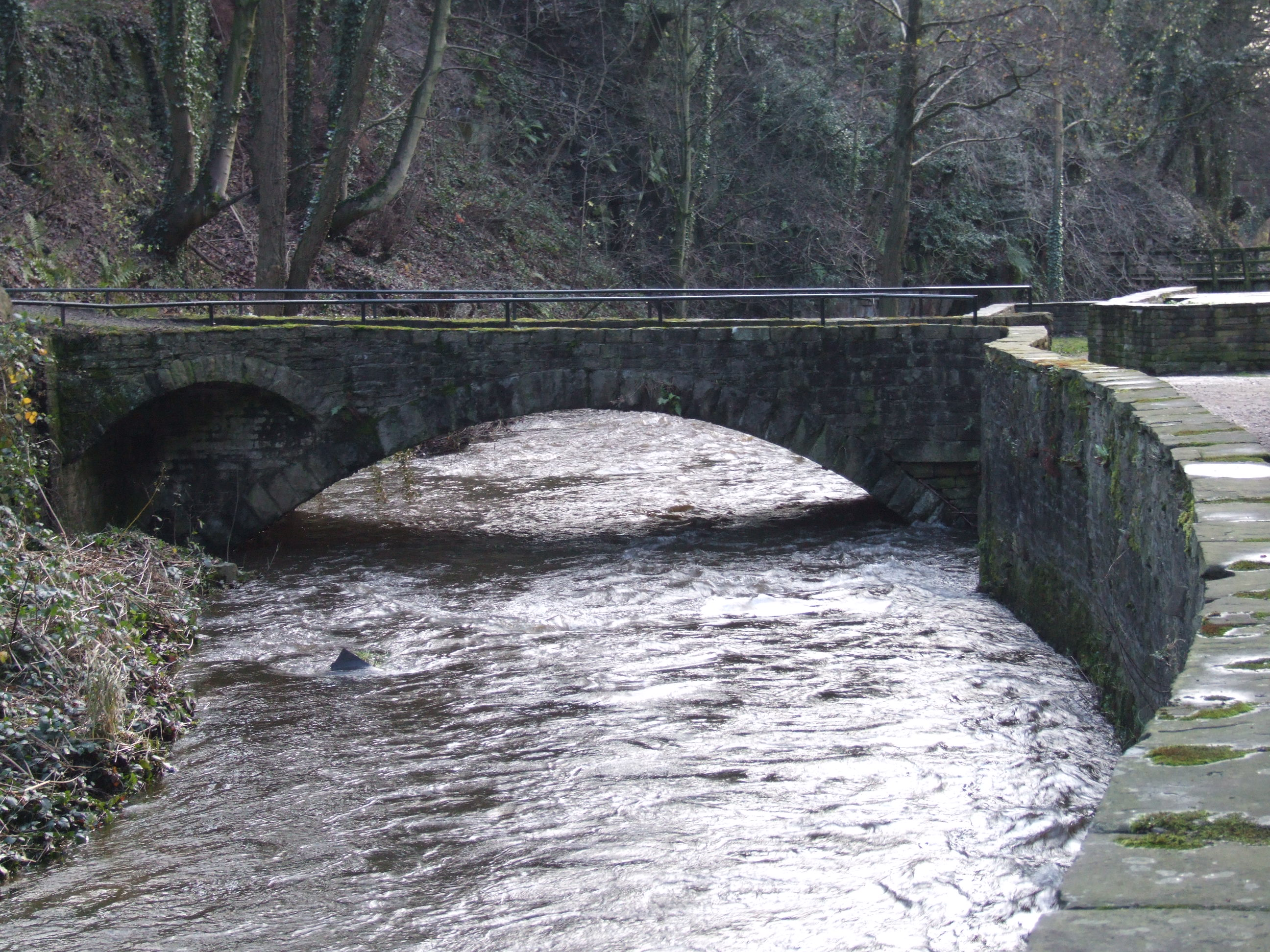 The Torrs is a gorge through Woodhead Hill Sandstone in New Mills, a village in the Peak District. It lies at the confluence of the River Sett and the River Goyt. Pack horse bridge. - Google Maps - Google Earth